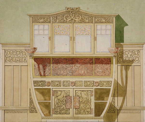 Drawings by Gaspar Homar conserved at MNAC in Barcelona